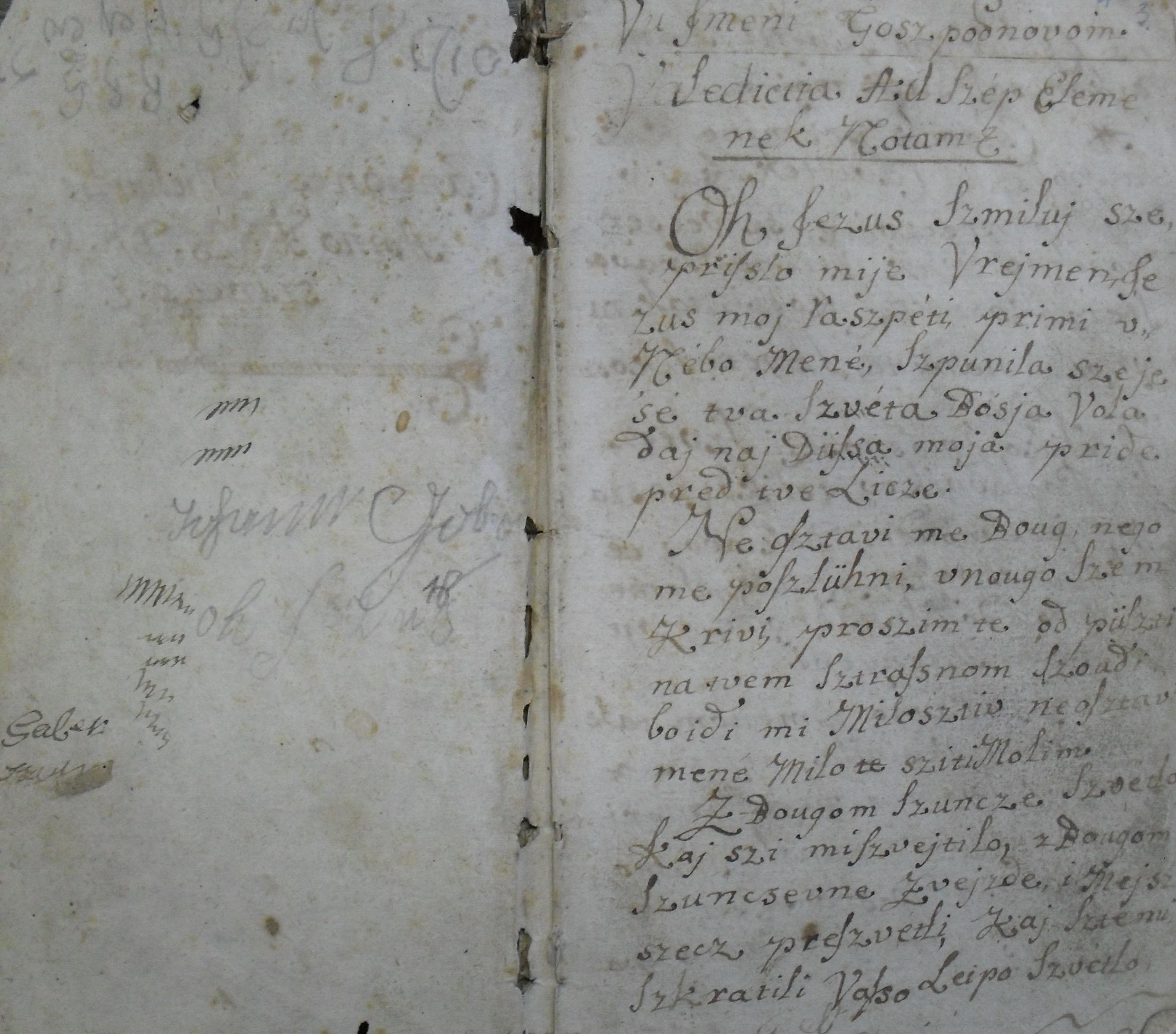 The first page of the Cantiones Michaelis Gaber (1825) in prekmurian language. The first hymn: Oh Jezus ſzmiluj sze (Oh Jesus, forgive me)